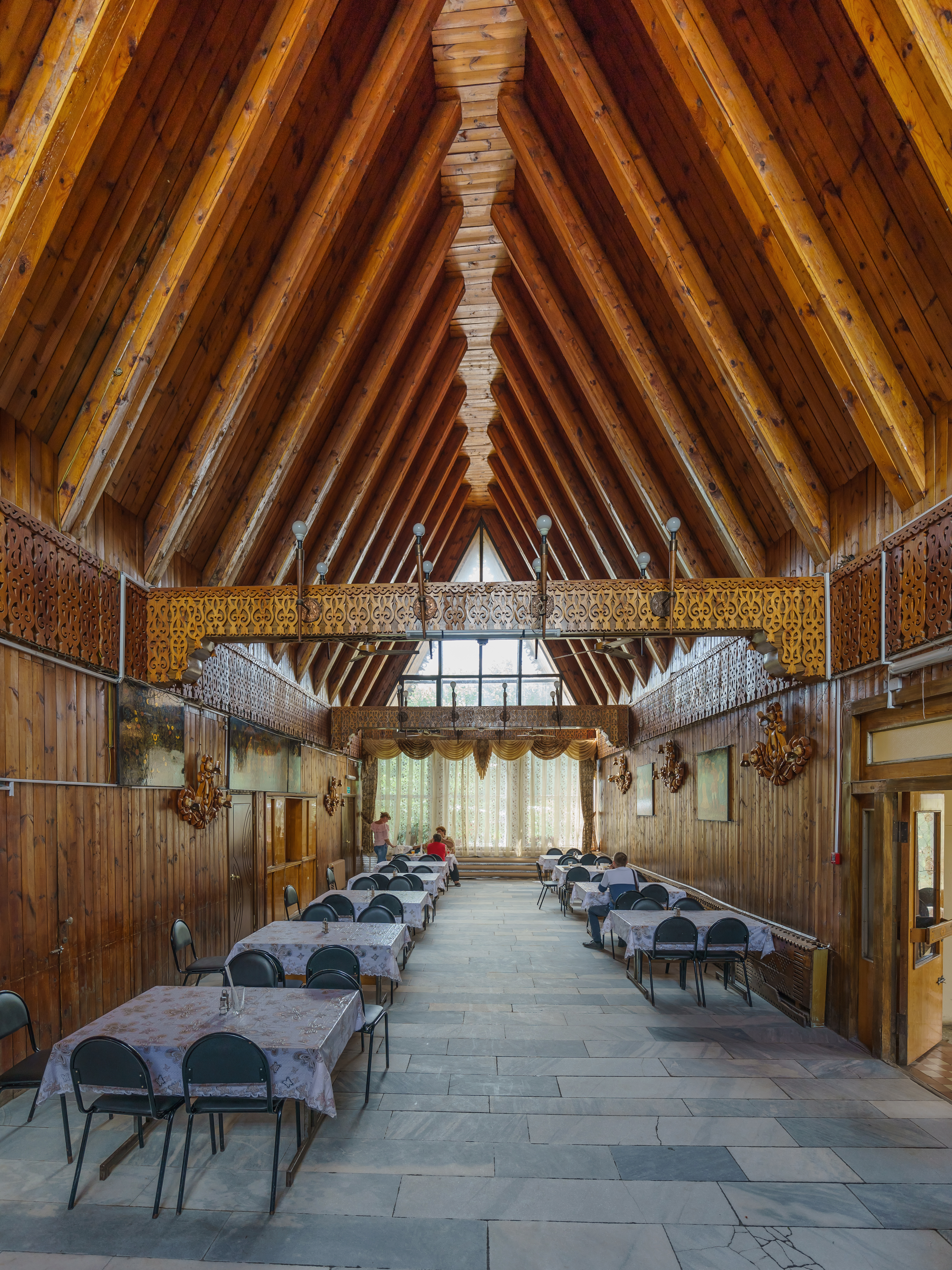 Restaurant building at Bakanova Street, 1 in Palekh, Ivanovo Oblast, Russia.